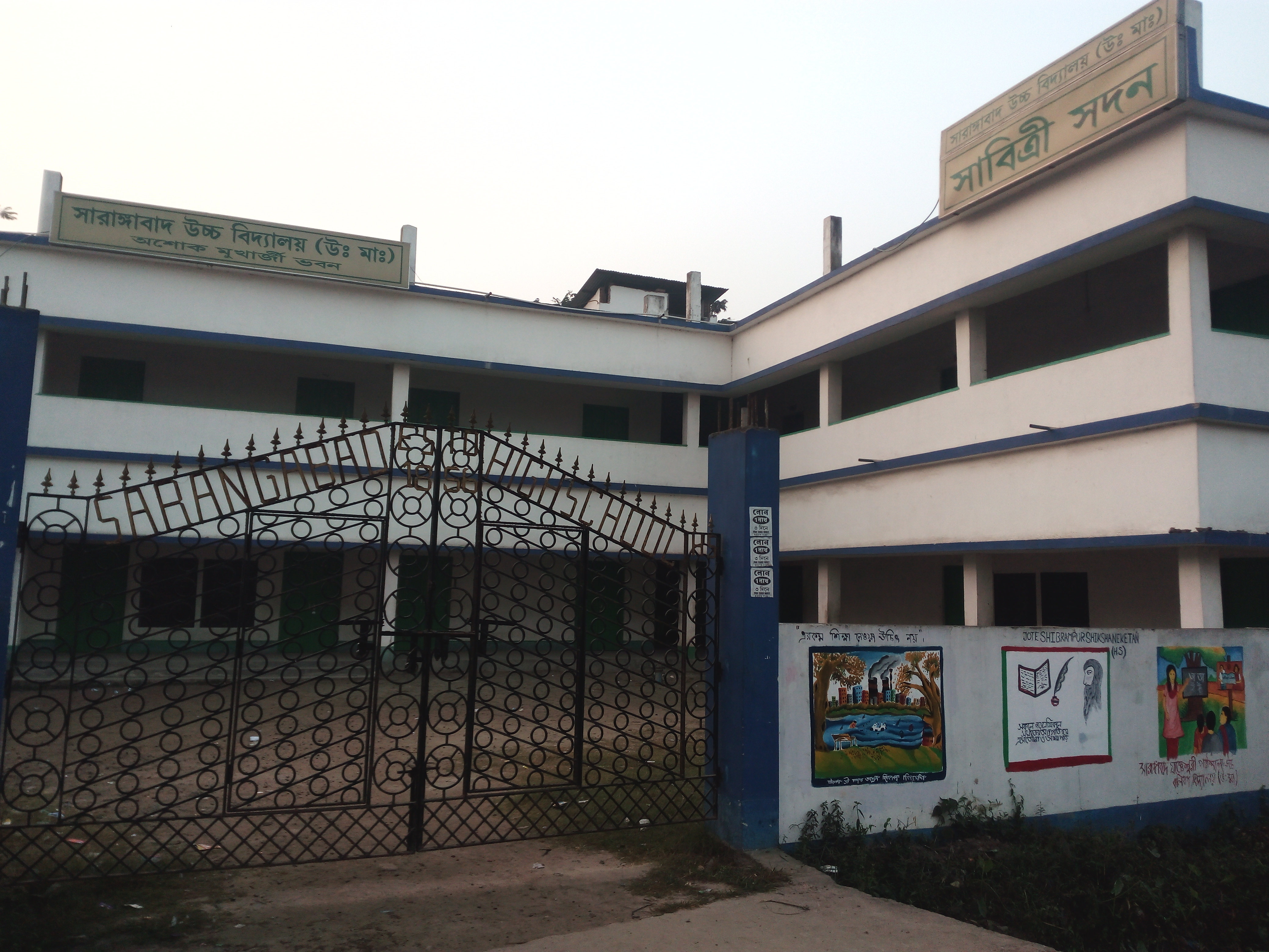 Ashok Bhaban of Sarangabad High School, Budge Budge, West Bengal